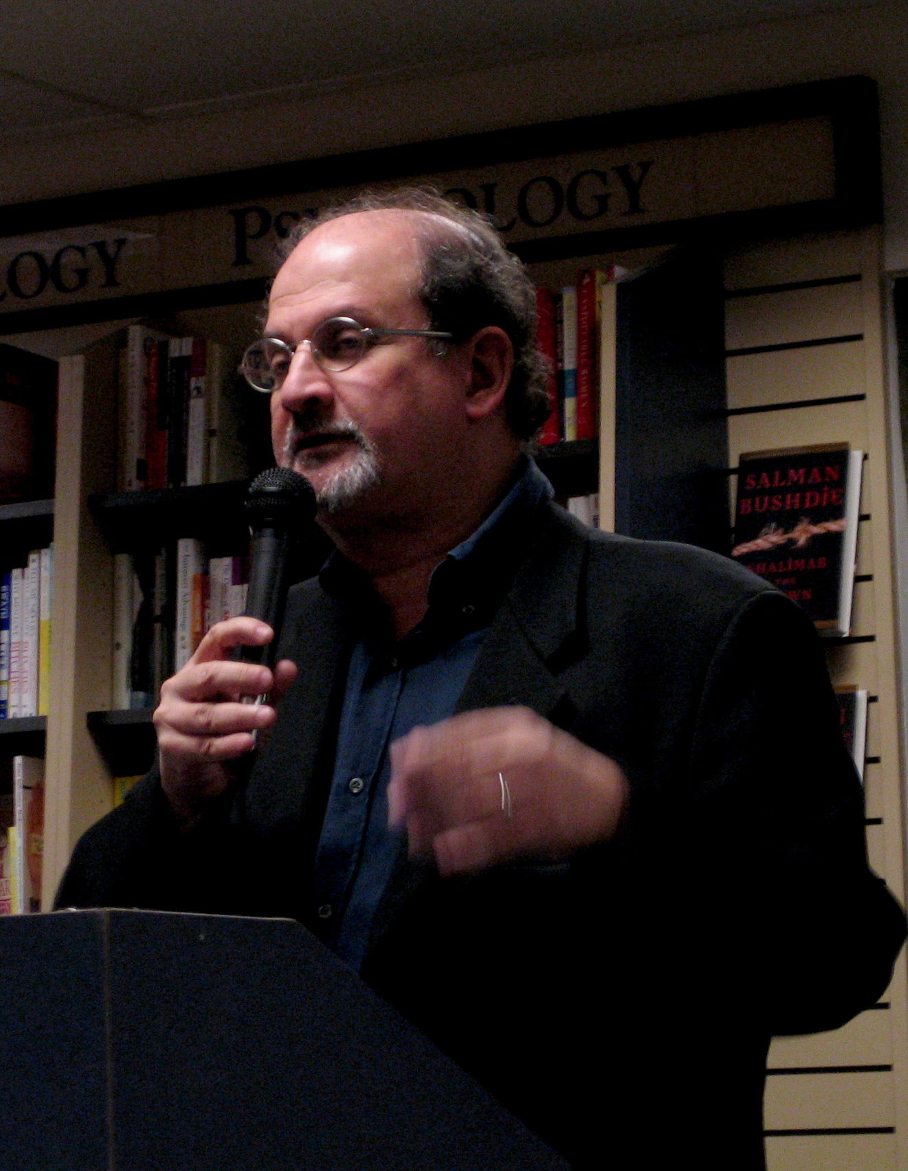 Salman Rushdie presenting his book "Shalimar the clown" at Mountain View, USA, October 2005